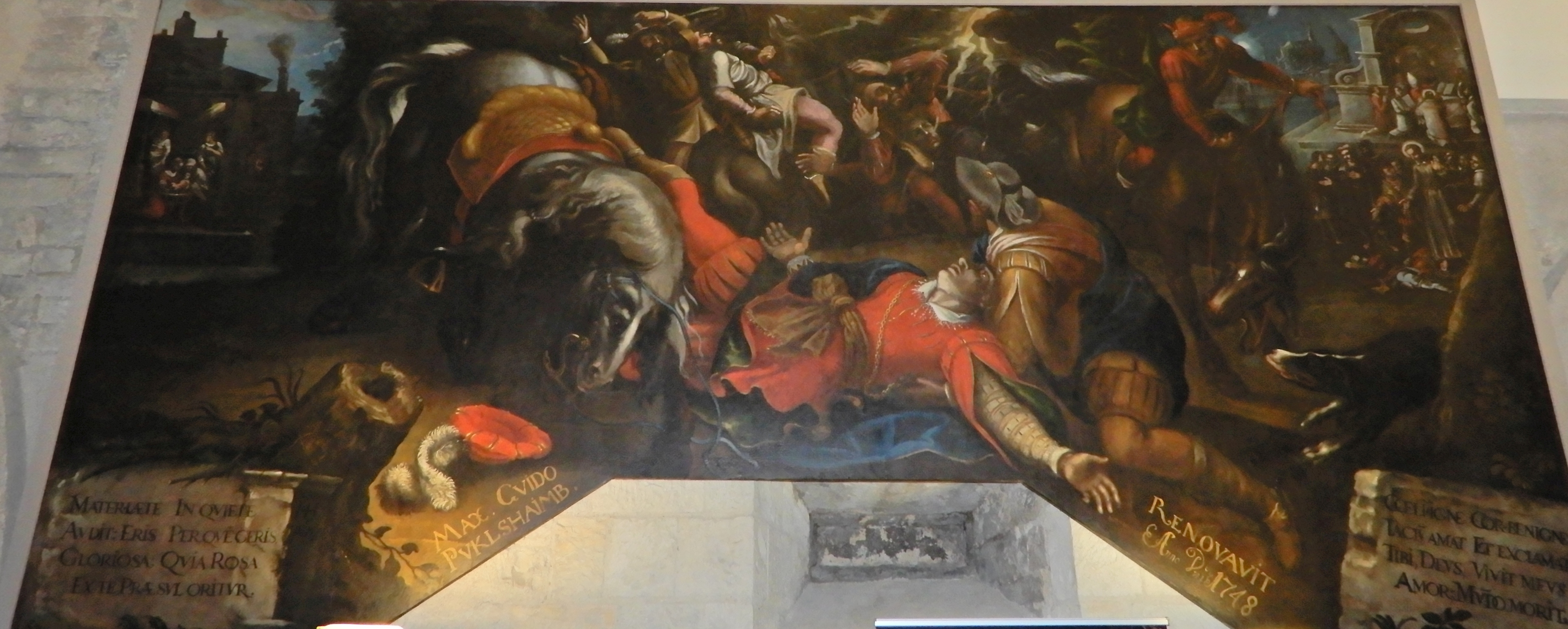 Conversion of St Norbert of Xanten, from the cycle of J.J.Hering, oil on canvas 1626-1628, Prague Strahov, H.Virgin church